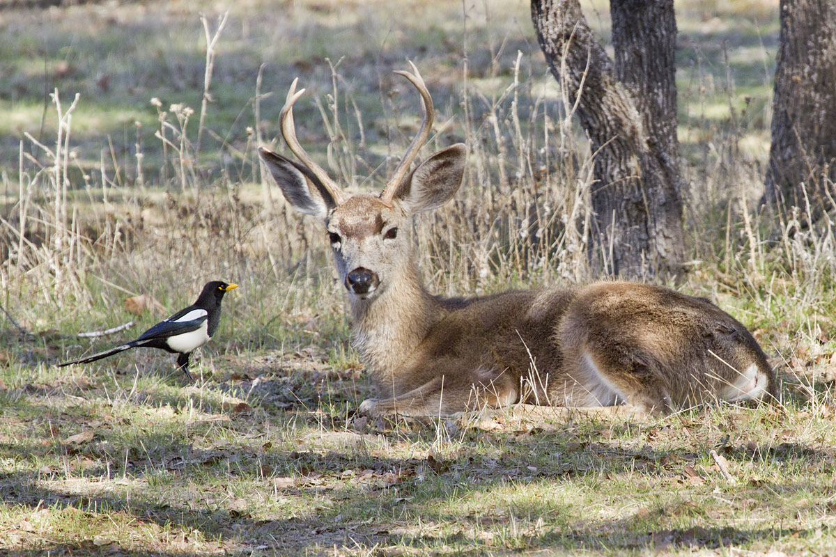 Gelbschnabelelster (Pica nuttalli) and Maultierhirsch (Odocoileus hemionus). Lake San Antonio, Vereinigte Staaten.